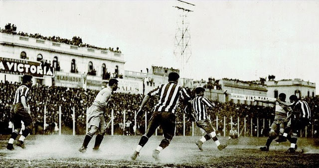 A match played between Argentine teams Boca Juniors and River Plate, also known as Superclásico.